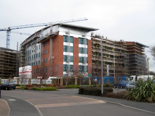 New Pinderfields Hospital The new building, viewed from the Aberford Road /Bevan Grove entrance, is now taking shape. It is due to open in 2010.